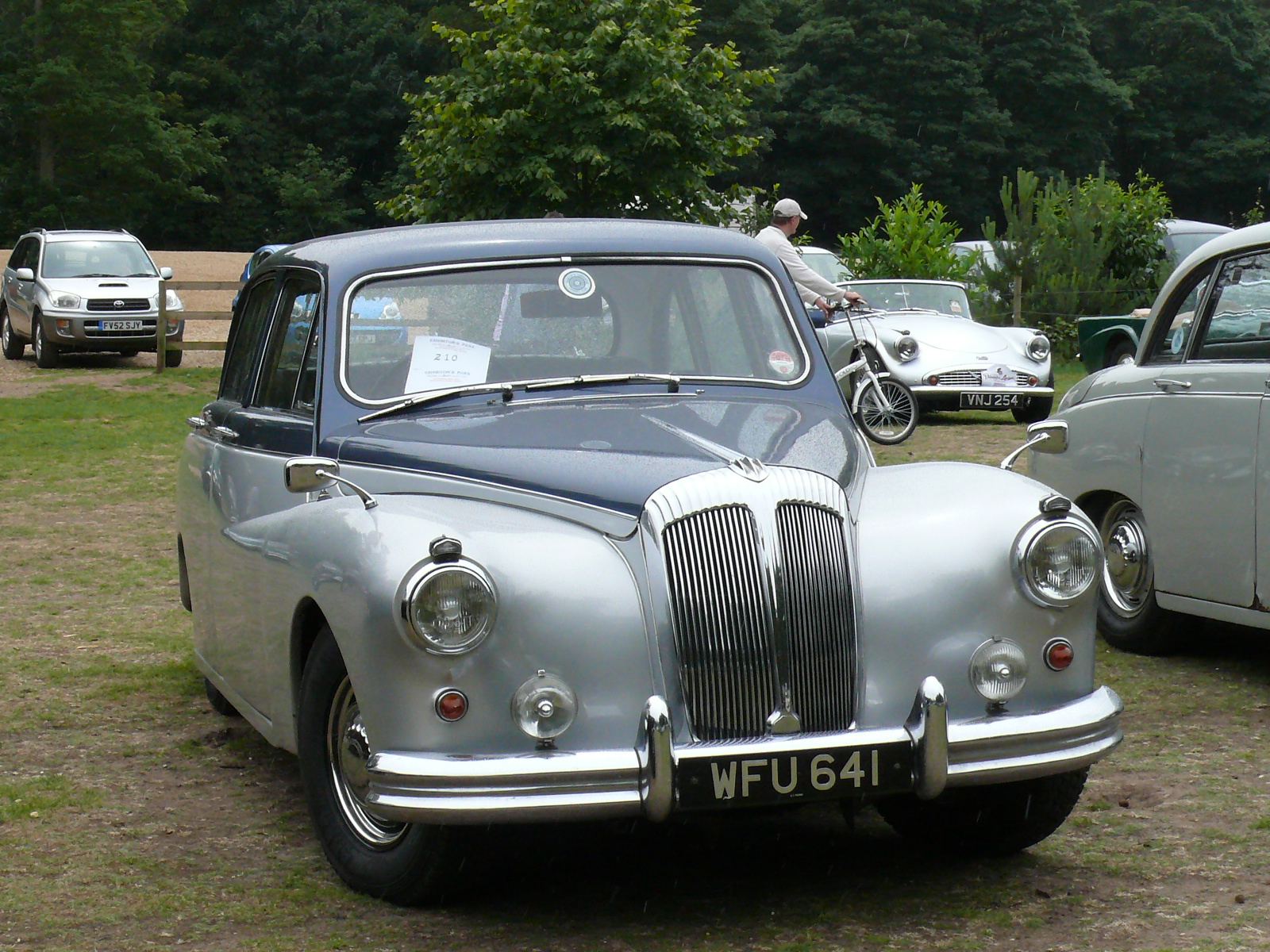 Daimler Majestic 3.8-litre saloon [WFU 641] Daimler & Lanchester Owners Club, International Rally, Queen's Birthday weekend, Sandringham, Norfolk Sunday 12 June 2011 (DVLA) 3794cc, reg 1 July 1960